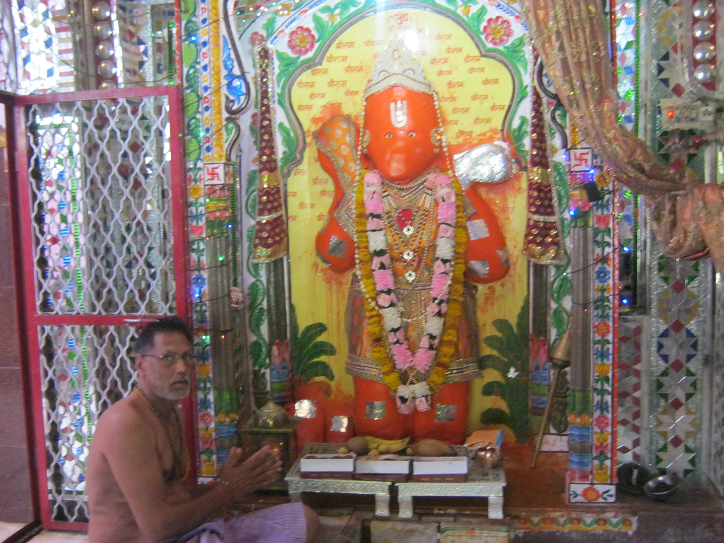 A monk offering Pooja of Lord Hanuman